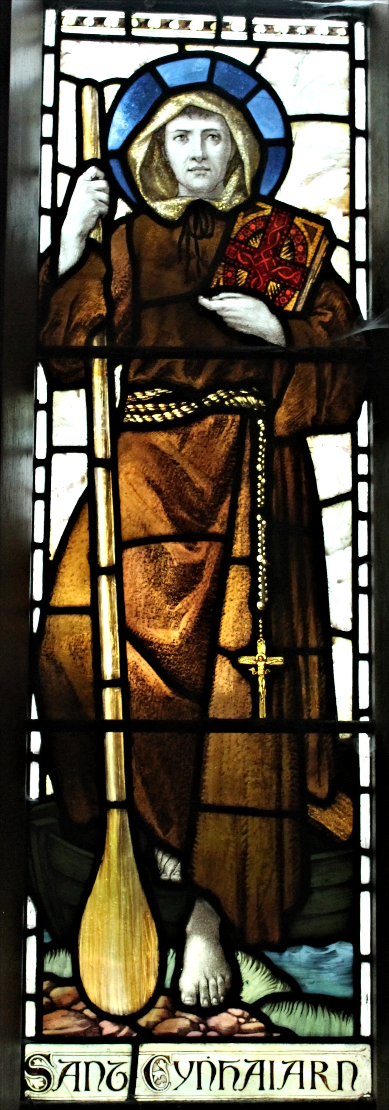 St Cynhaiarn image on stained glass indow at Eglwys Sant Cynhaiarn / Cynhaearn, near Cricieth, North Wales.